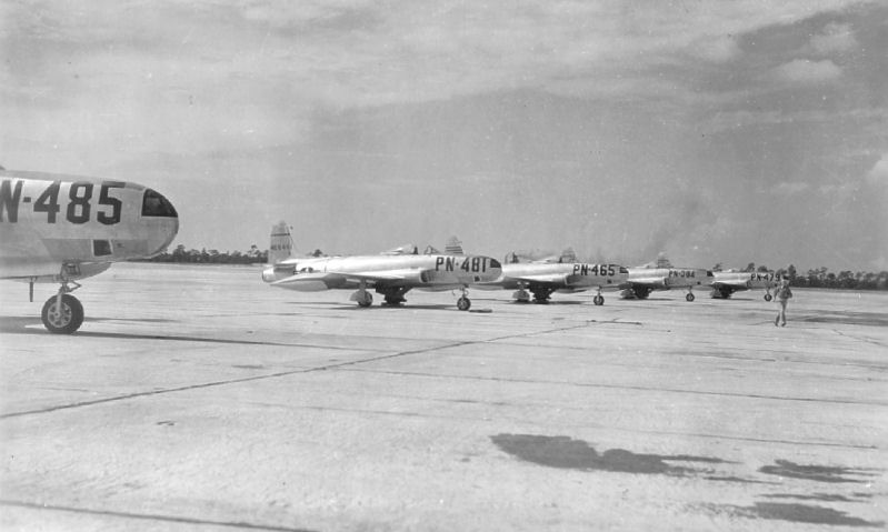 12th Reconnaissance Squadron, Photographic -RF-80s, March AFB, California, 1948. Identified aircraft are RF-80C 49-485, 481, 465, 394, 479